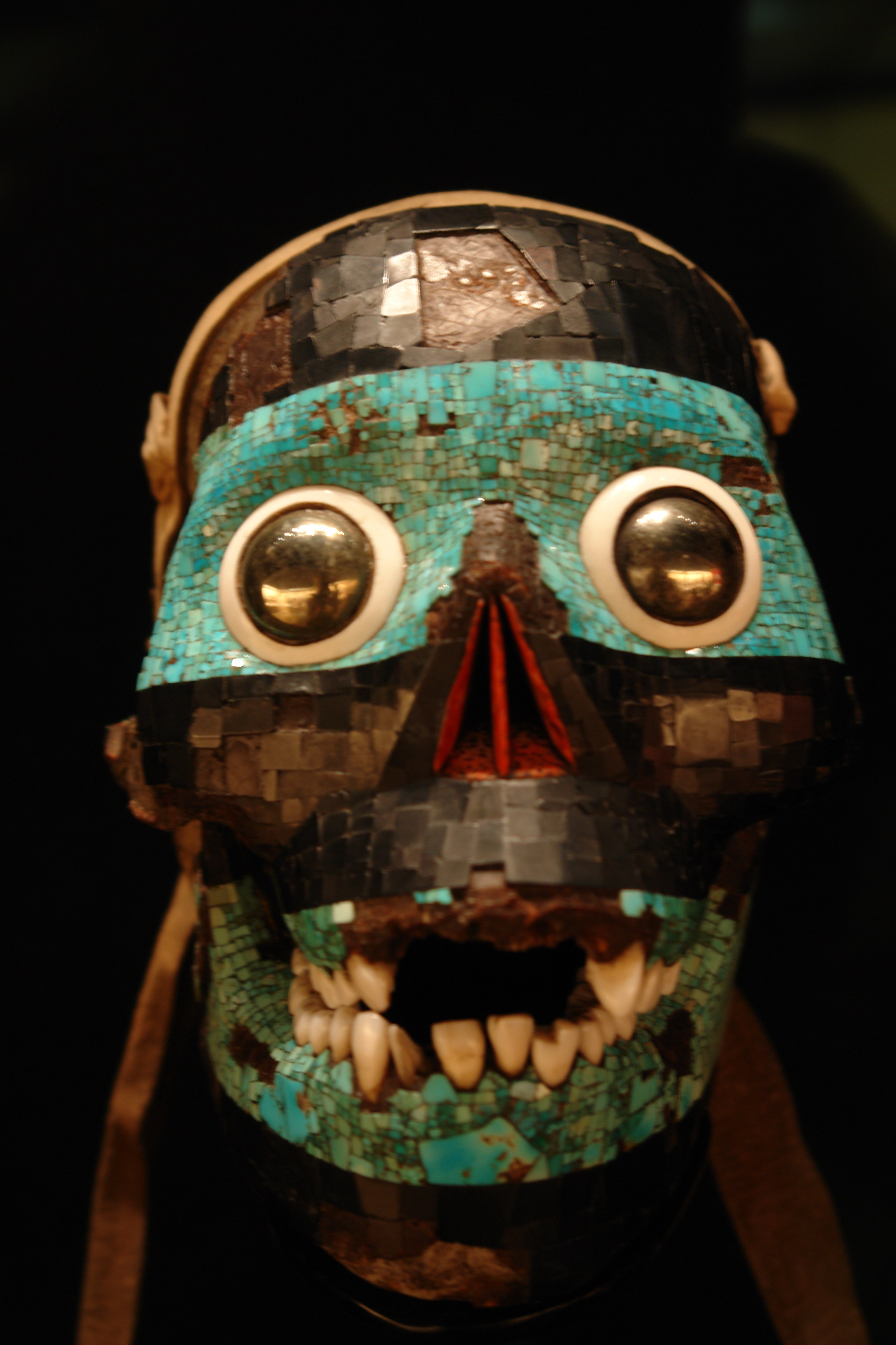 Turquoise mask representing the god Tezcatlipoca (one of the Aztec creator gods). The base for this mask is a human skull. Mixtec-Aztec. 1400-1521.